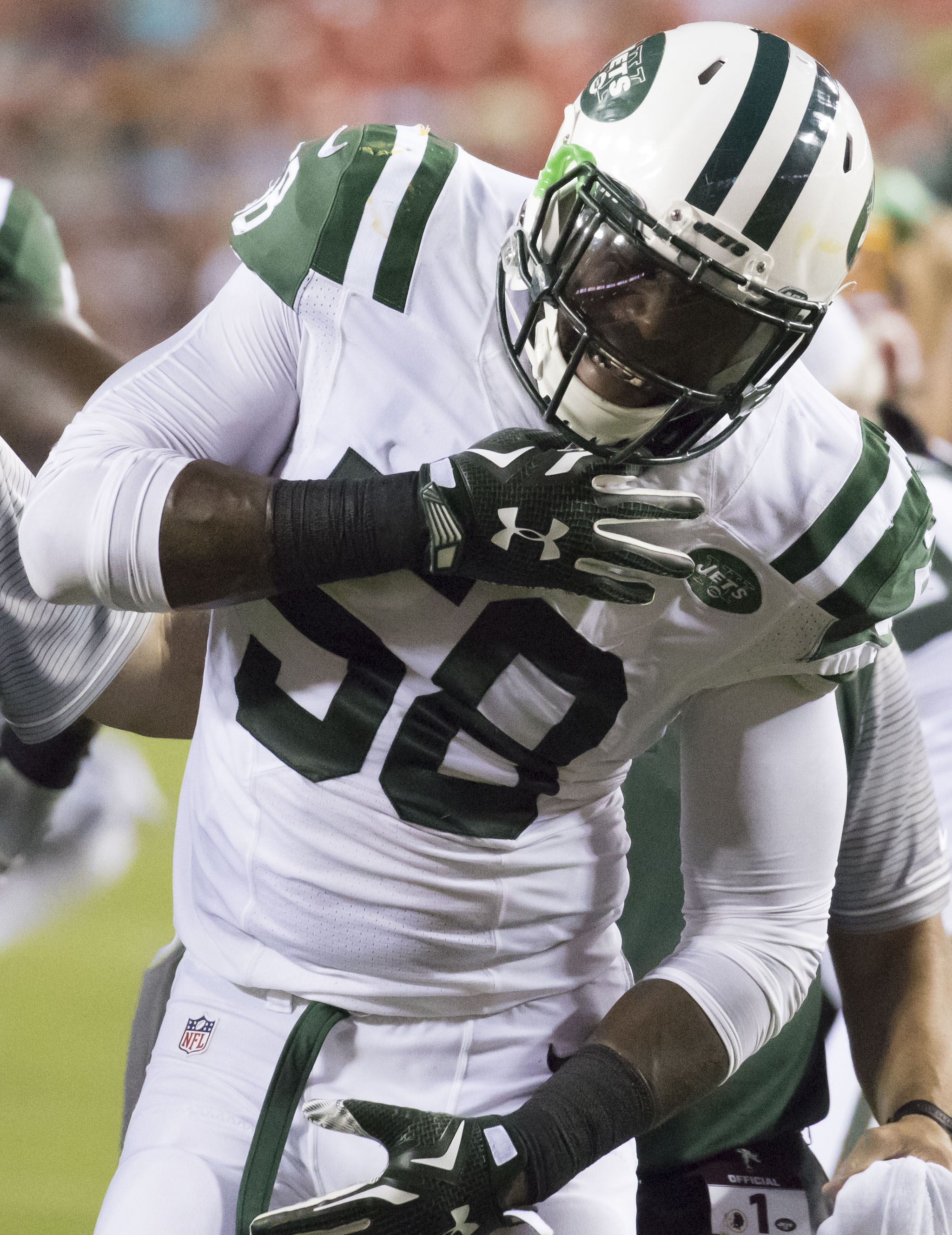 Jets at Redskins 8/19/16